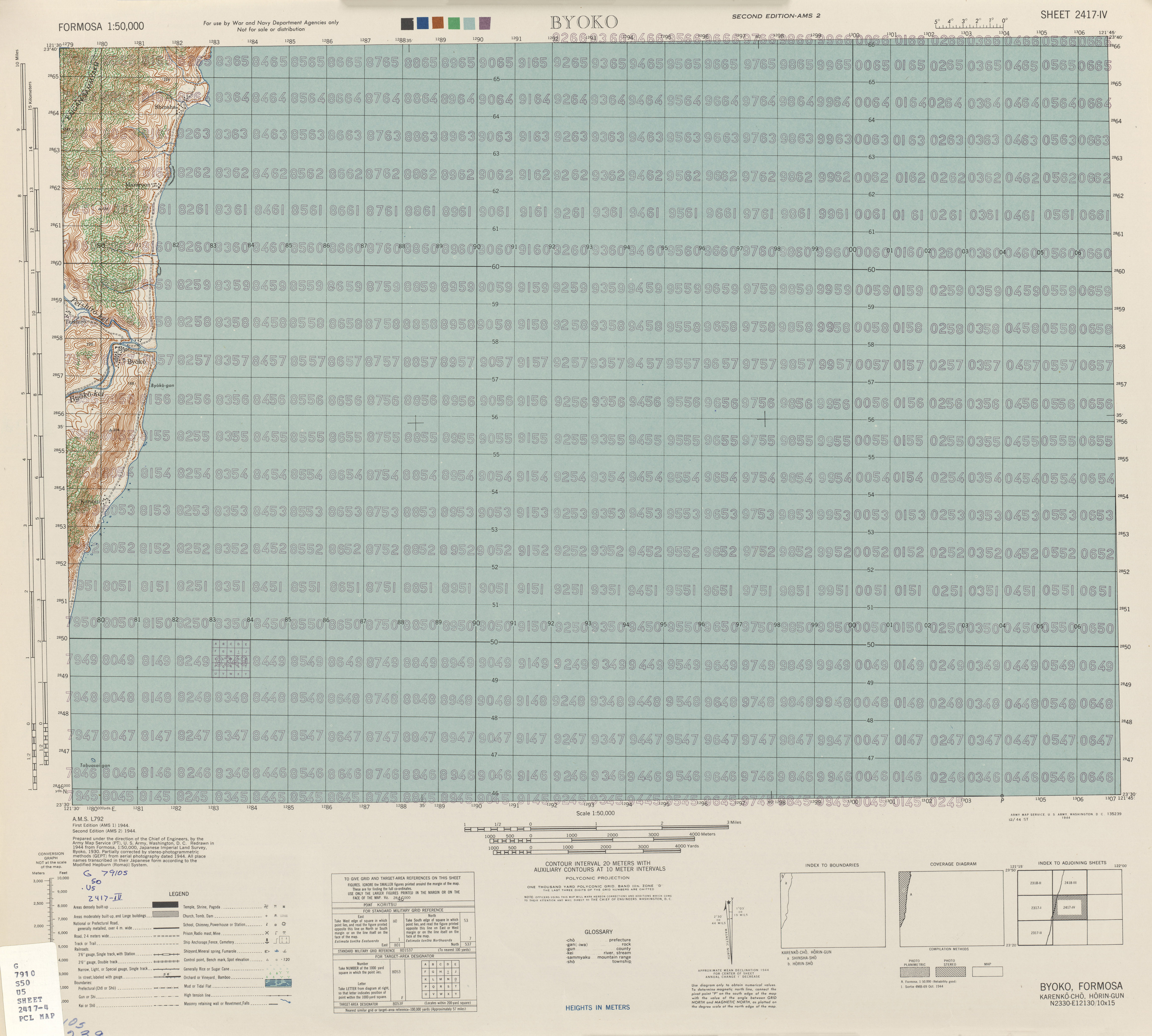 Map from Formosa (Taiwan) 1:50,000 AMS Series L792